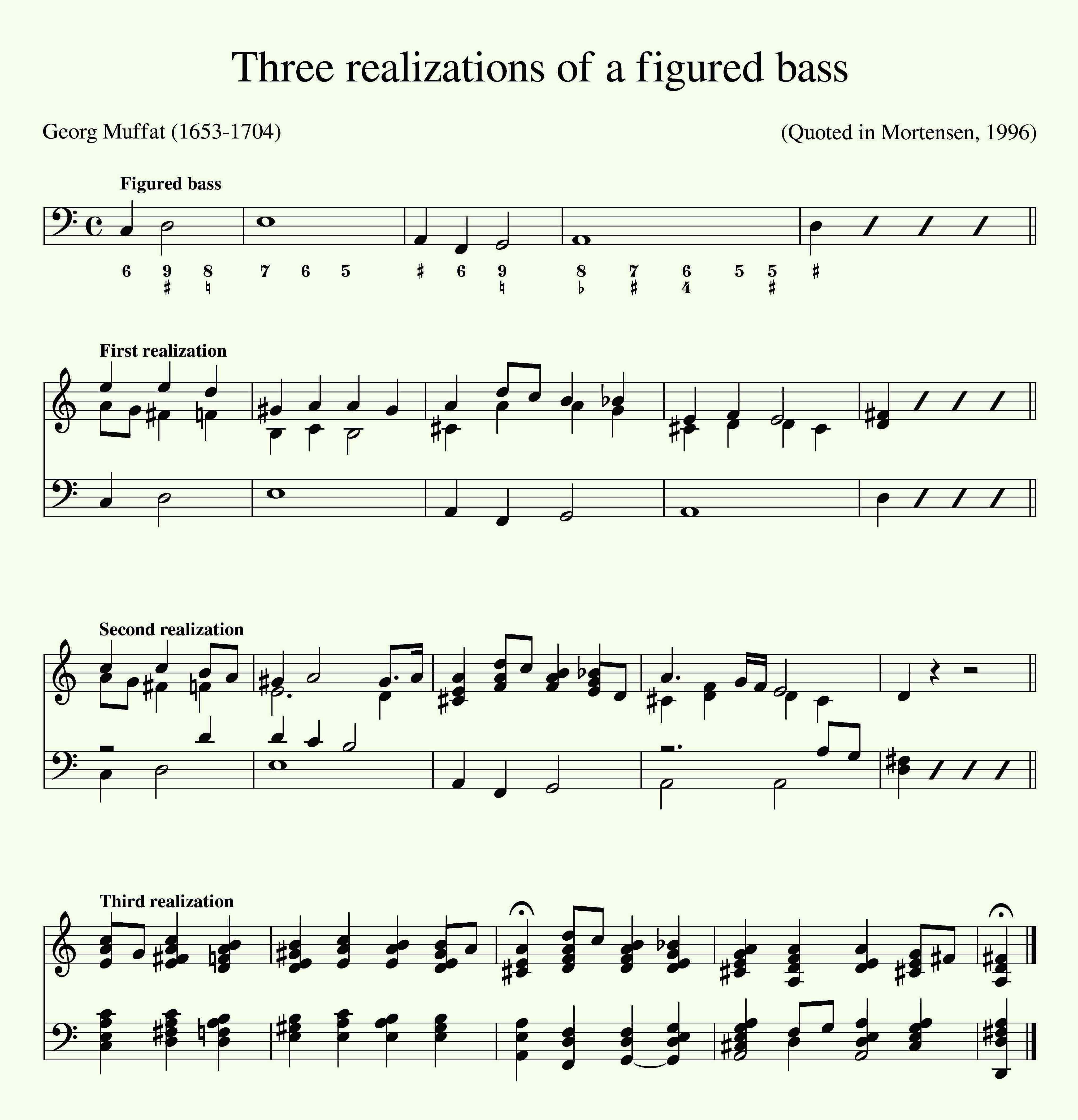 Three different realizations of a figured bass by Georg Muffat (1653-1705), quoted in Mortensen, 1996.